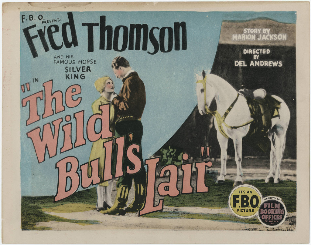 Lobby card for the film The Wild Bull's Lair (1925). Caption: "F.B.O. presents Fred Thomson and his famous horse Silver King in The Wild Bull's Lair." Approximately 27.8 x 35.5 cm. Part of the Western silent films lobby card collection, 1912-1930. Cite as Yale Collection of Western Americana, Beinecke Rare Book & Manuscript Library, Yale University. Bibliographic Record Number 2019969. View our Record Permalink. With Catherine Bennett (1901–1978).